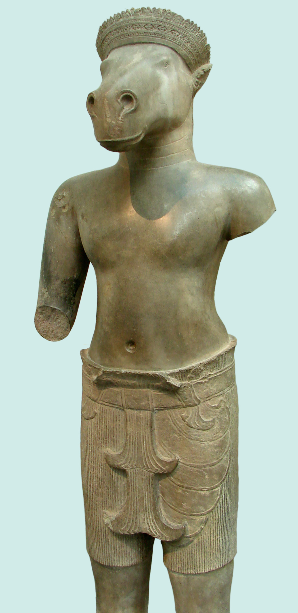 Vajimukha (horse-headed deity) representing either Kalkin (future avatar of Vishnu) is a yaksa or kimnara. Cambodia, Kompong Thom Sambor Prei Kuk N7, Pre Rup style, late 10th century, sandstone. Musée Guimet, Paris.